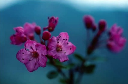 Kalmiopsis leachiana, a unique endemic shrub discovered in 1930 by Lilla Leech in southwest Oregon's Gold Basin area. This plant is the namesake of the Kalmiopsis Wilderness in the Rogue River-Siskiyou National Forest.